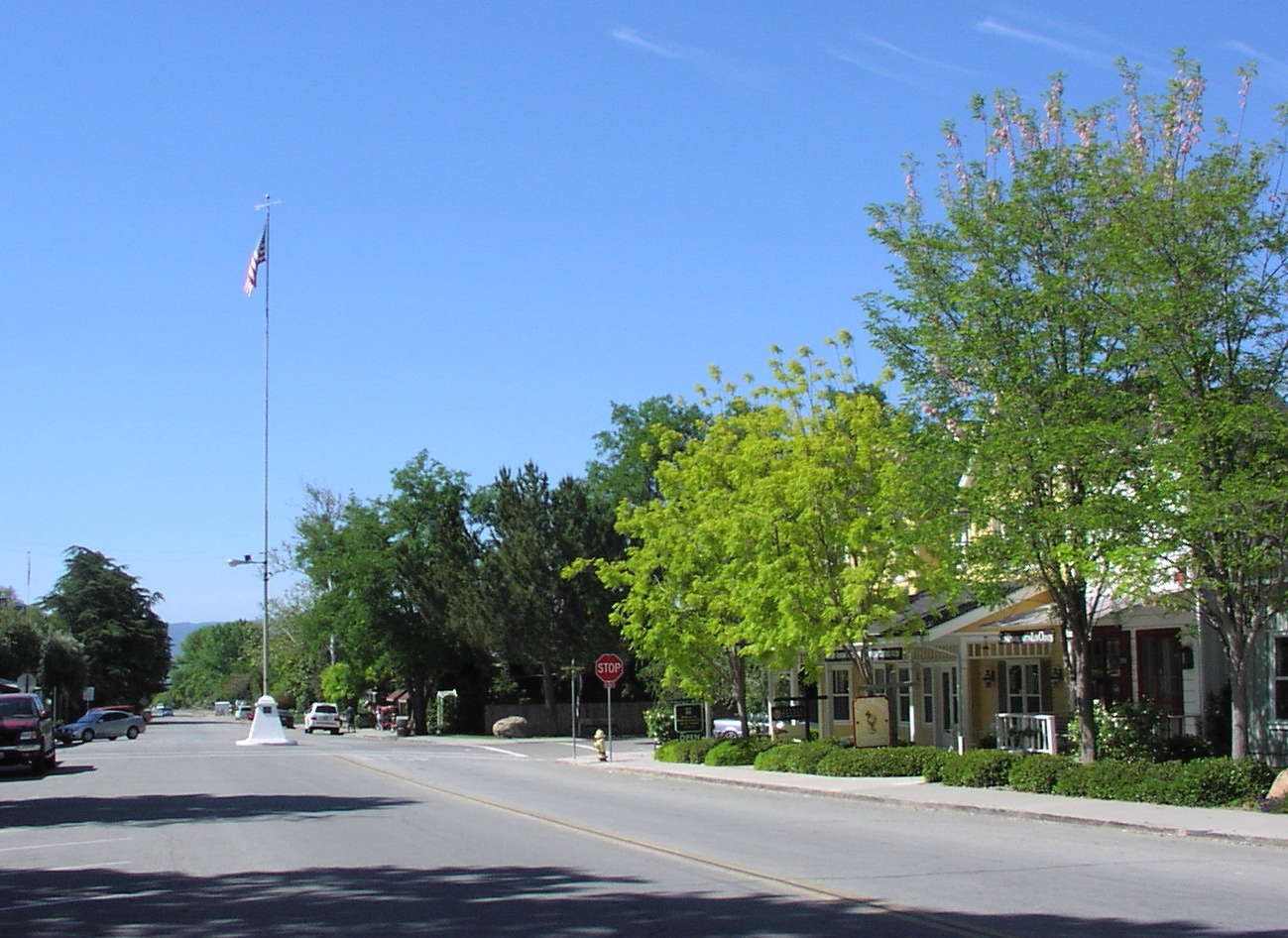 Los Olivos, California: town in the Santa Ynez valley: photo of central intersection and flagpole